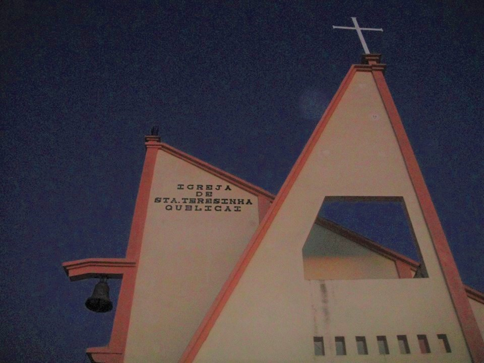 Santa Teresinha's Church in Quelicai